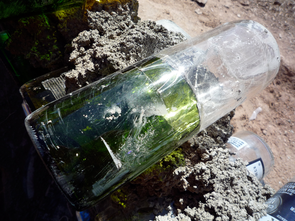 Earthship bottle wall in construction: two bottles are cut and taped together, then cemented in. Posted in Earthship Landing.